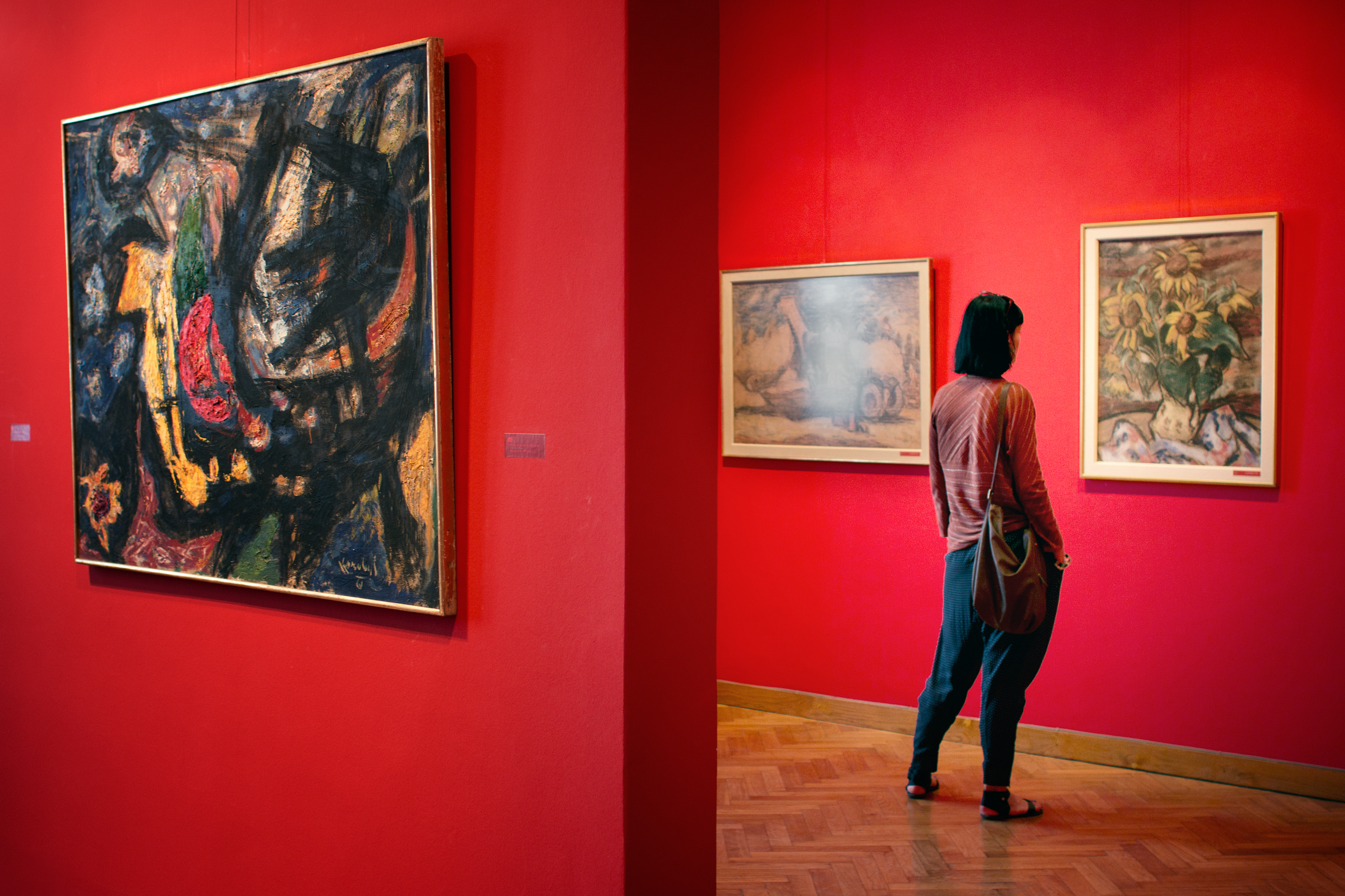 Gallery „Milan Konjović“ in Sombor, Serbia Srpski (latinica): Galerija „Milan Konjović“ Sombor, Srbija